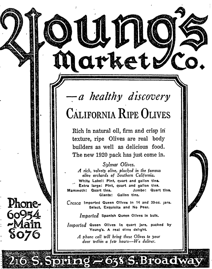 1920 newspaper advert for a Los Angeles, California, grocery (Young's Market Co.) featuring California Ripe Olives as the center attraction. To be used in the Sylmar, article. Other information Library card required to access the link.